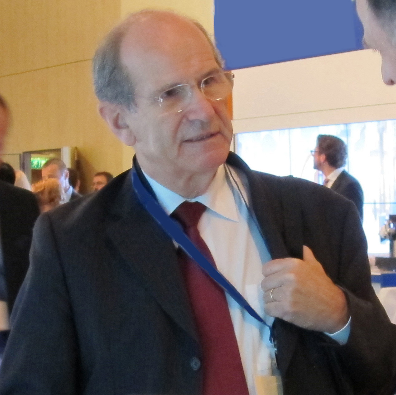 Pioneering Parkinson's disease neurosurgeon, researcher, and emeritus professor Alim-Louis Benabid, MD, PhD from Grenoble, France in conversation at a scientific conference in 2013.